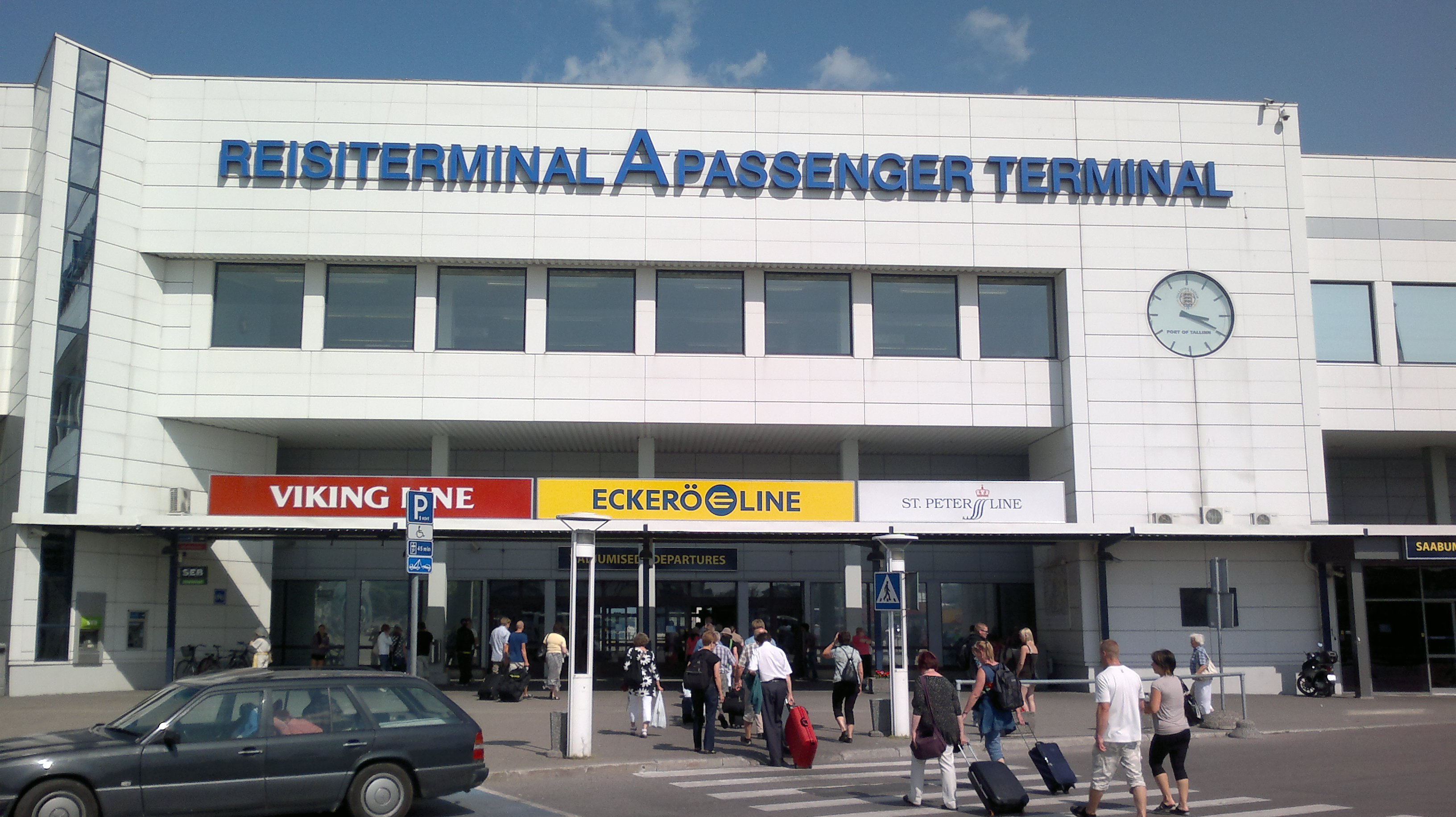 Passenger Terminal A in TallinnEesti: Reisiterminal A, Tallinn